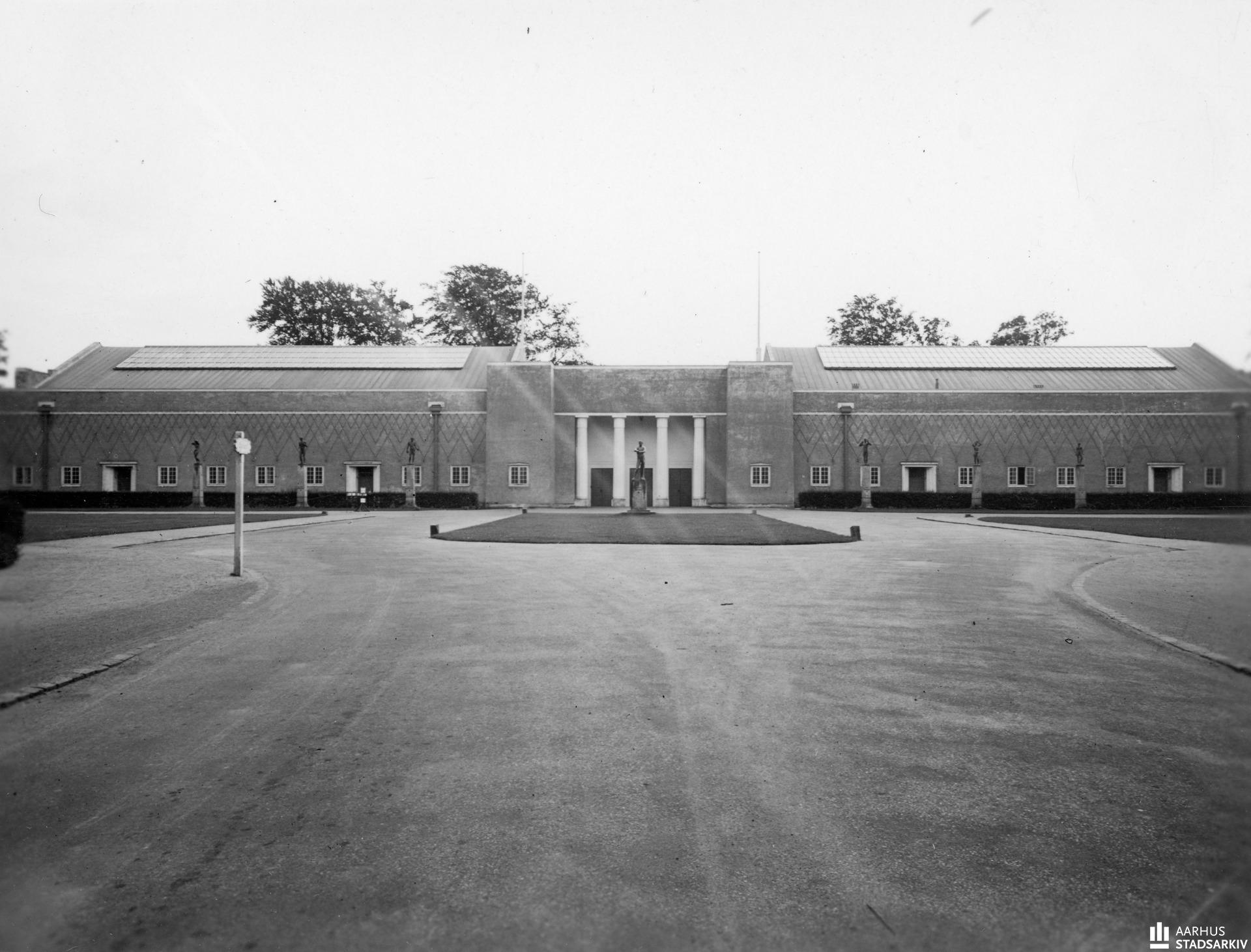 Aarhus Stadion as seen from Stadion Allé. Designed by architext Høeg-Hansen and inaugurated on 5 June 1920.